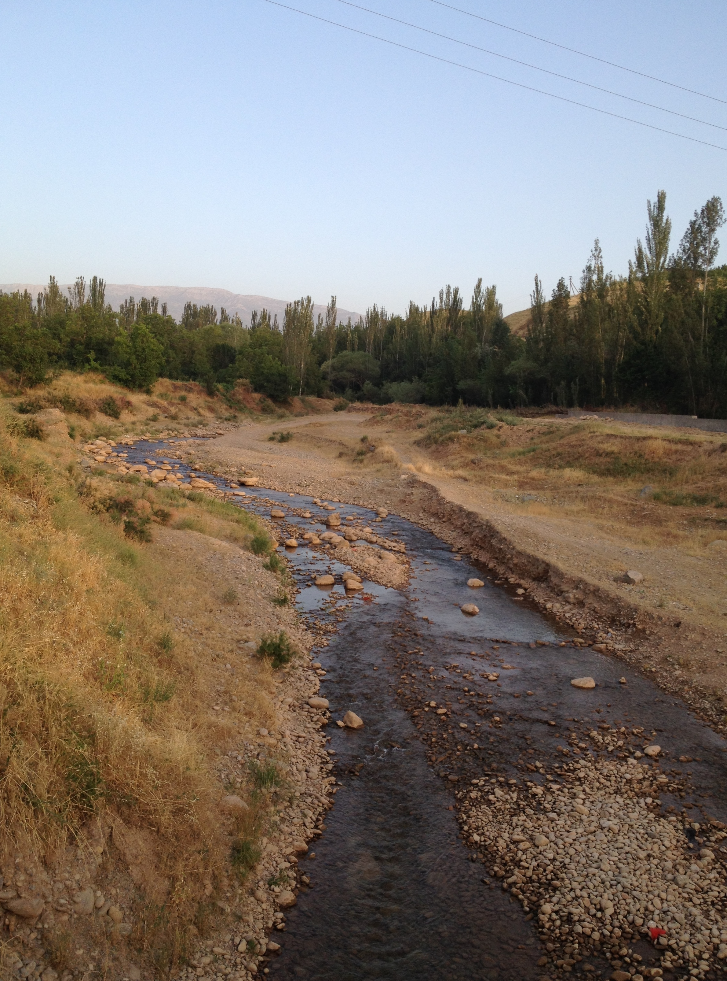 Tyrna river near Eski-Yakkabag settlement, Kashkadarya region